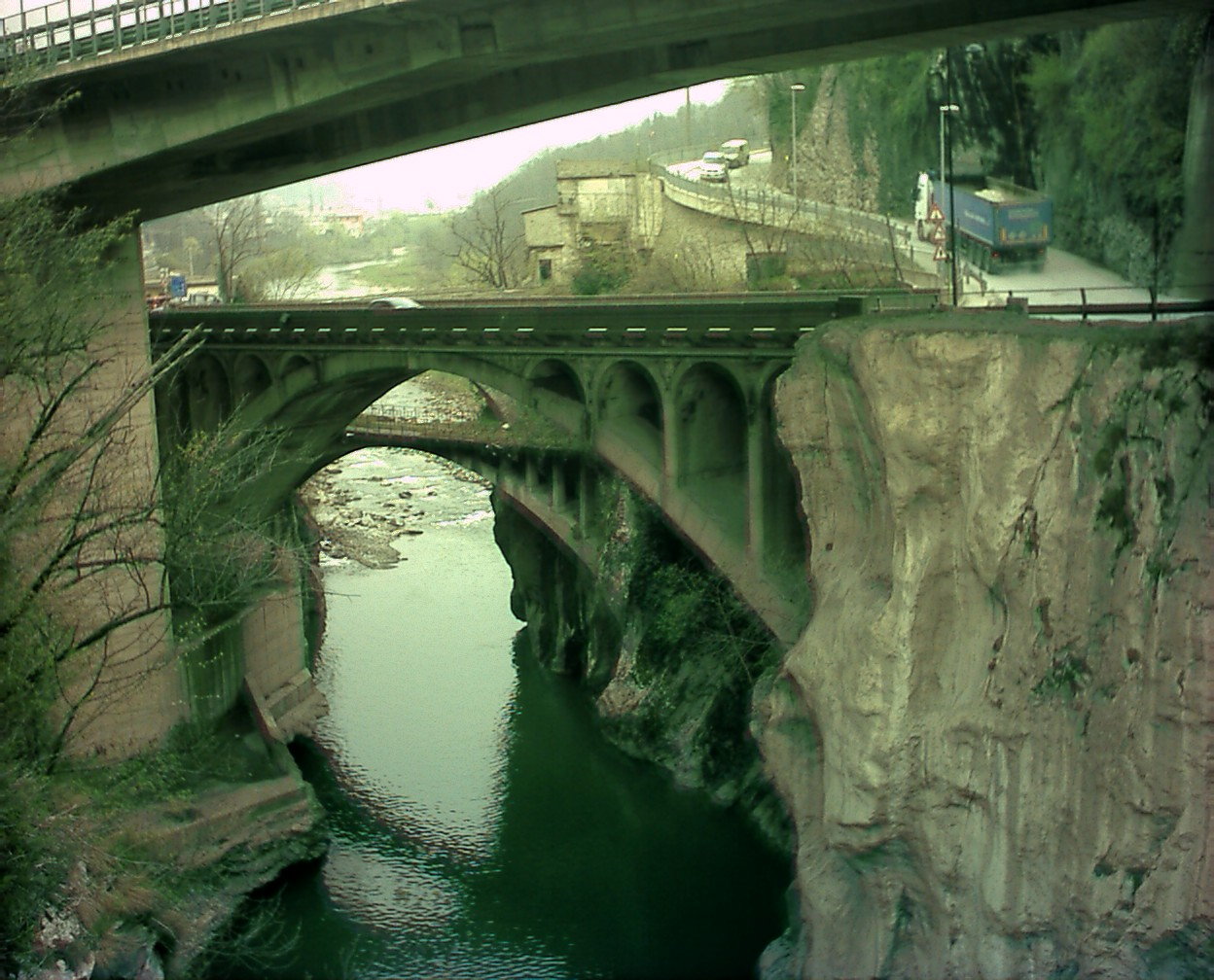 Bridges over Brembo river, Sedrina, Bergamo, Lombardy, Italy